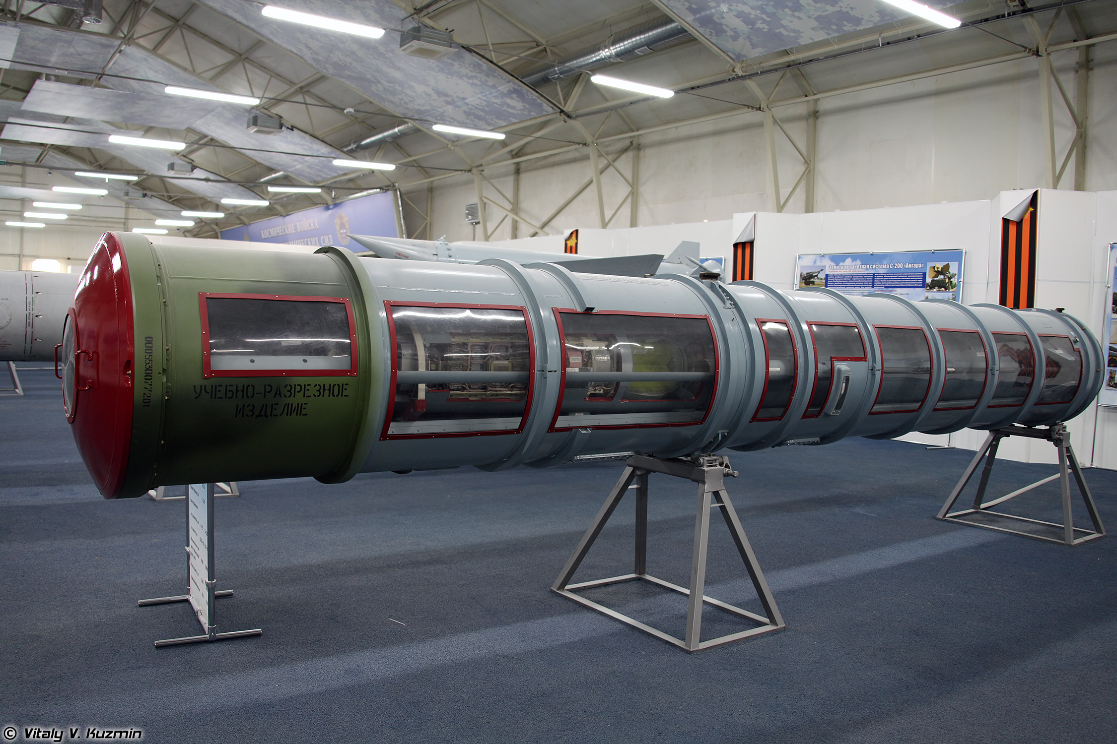 5V55 missile S-300P - Park Patriot